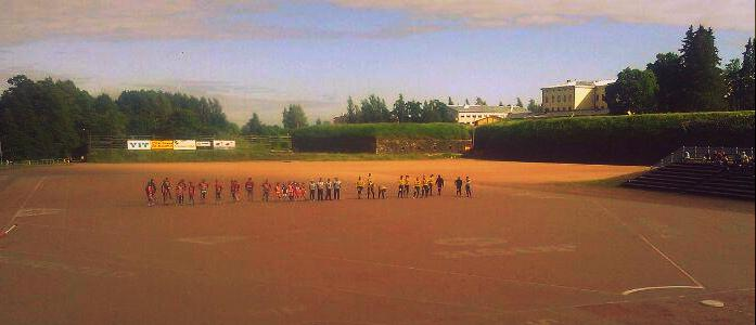 Finnish baseball stadium "Vallikenttä" in Hamina, Finland.